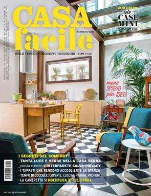 Cover of Casa Facile magazine, feb. 2018. Arnoldo Mondadori Editore, Mondadori Group.